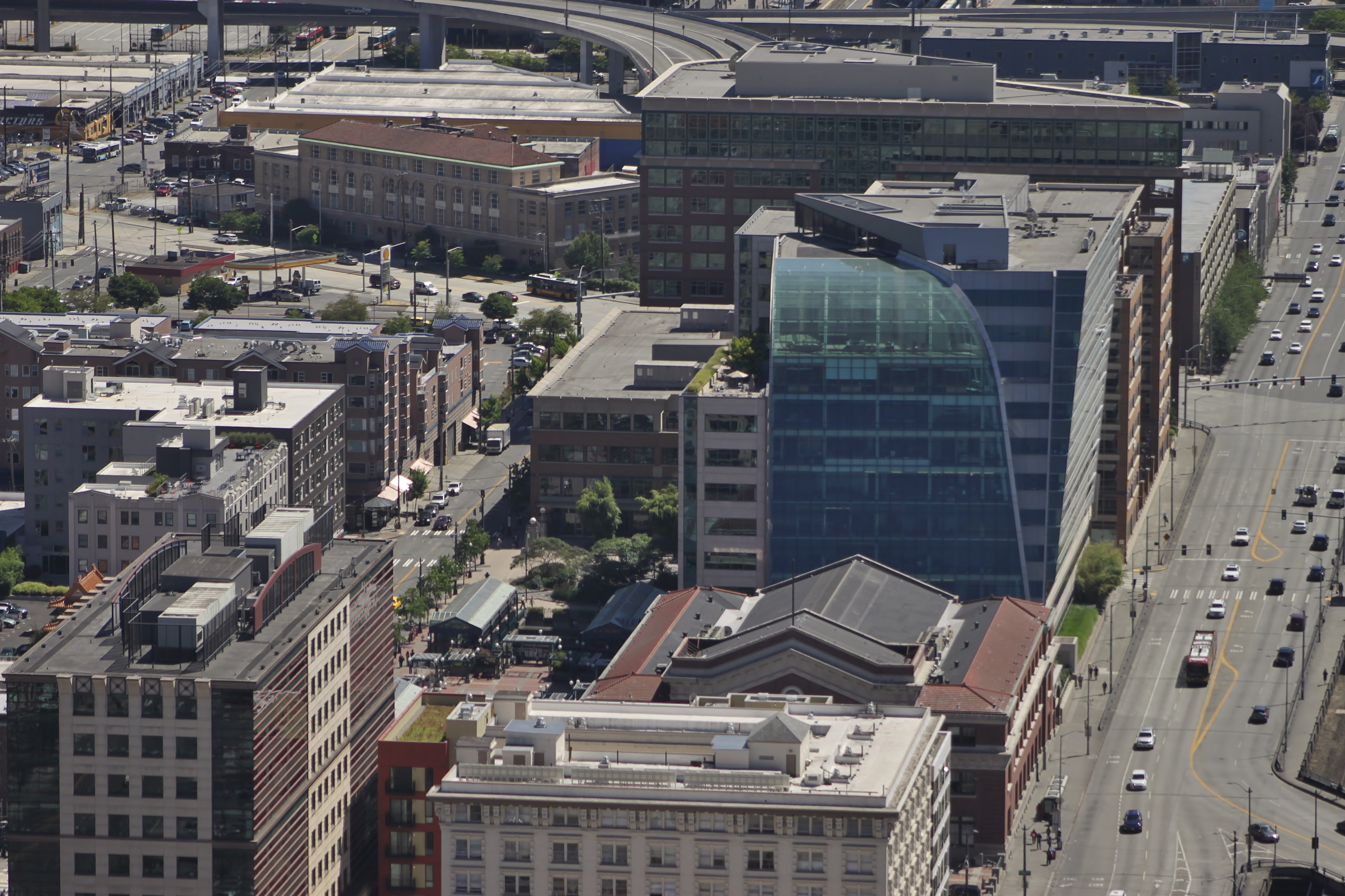 The historic Union Station in Seattle, Washington, and adjoining office buildings, viewed from the Seattle Municipal Tower.